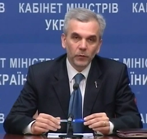 Oleh Musiy, Ukrainian politician, Minister of Healthcare of Ukraine